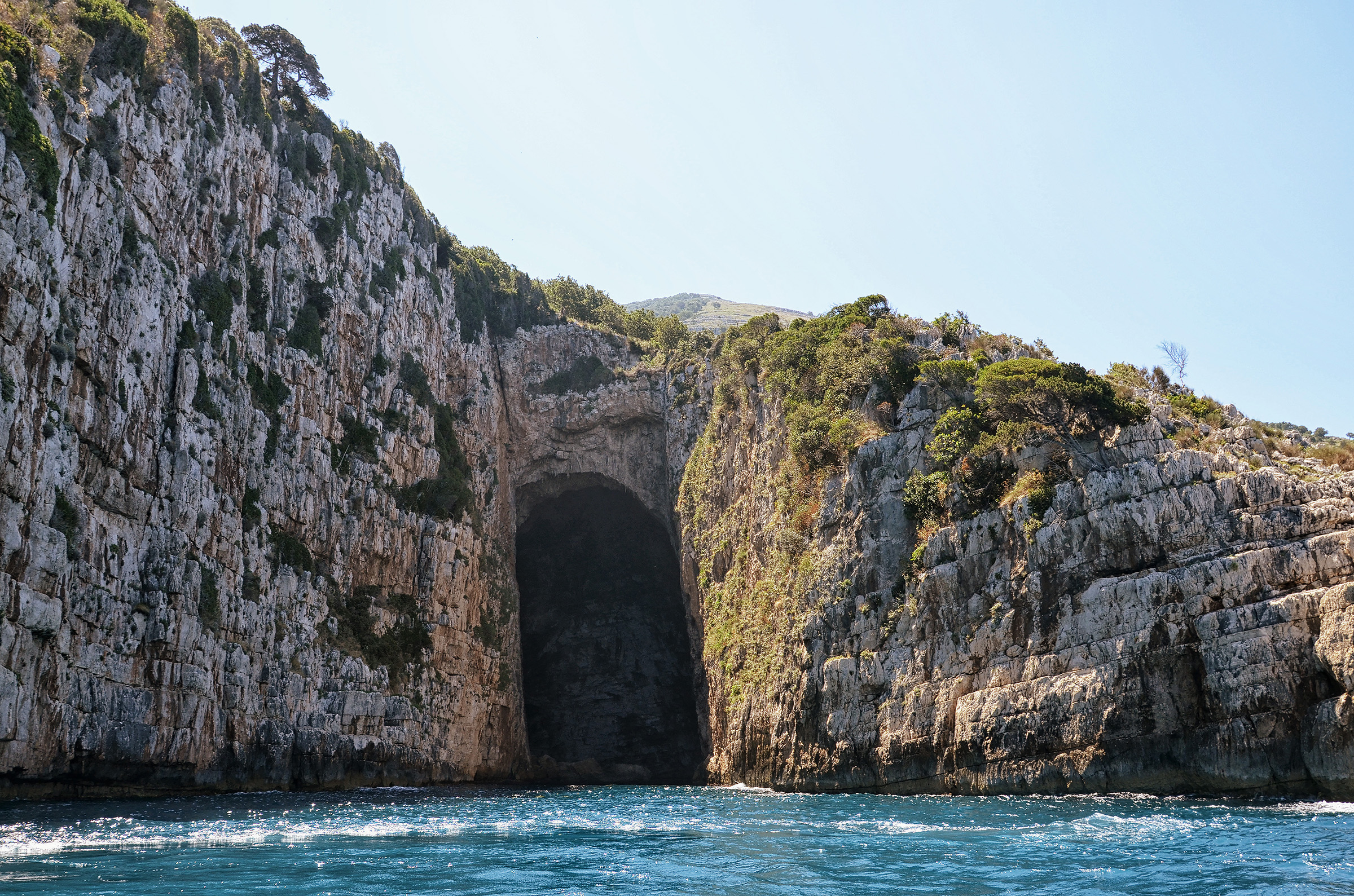 The Cave of Haxhi Alia at the Karaburun Peninsula, Albania